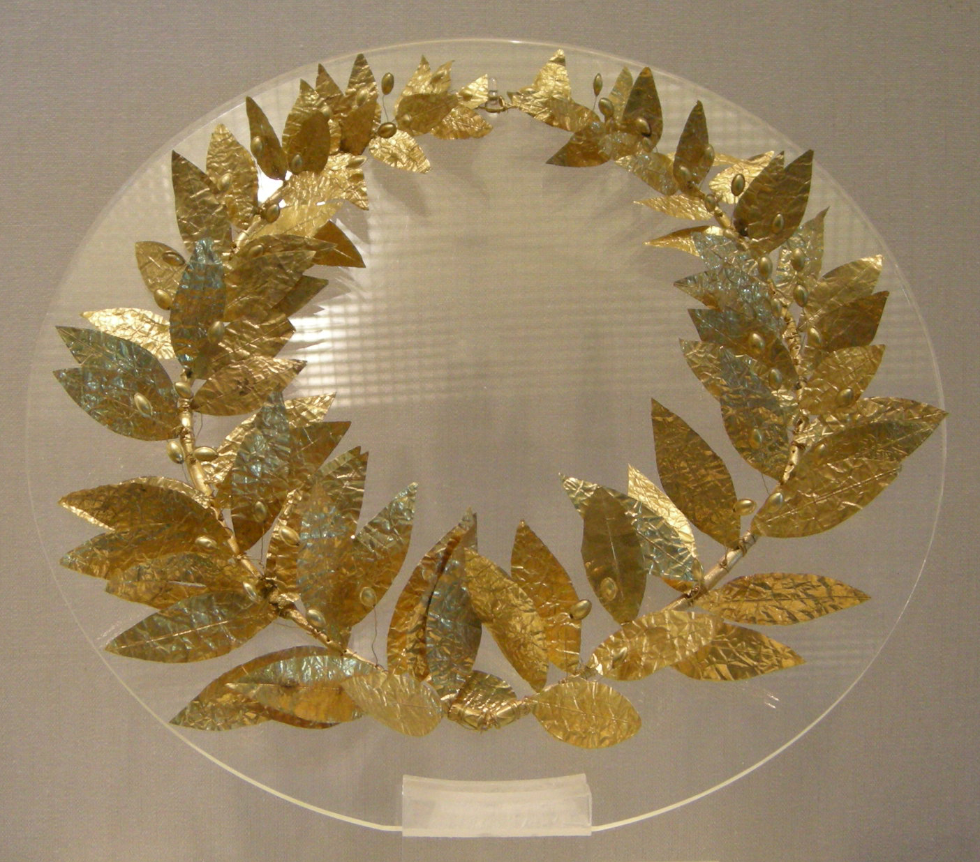 Ancient Greek golden wreath crown